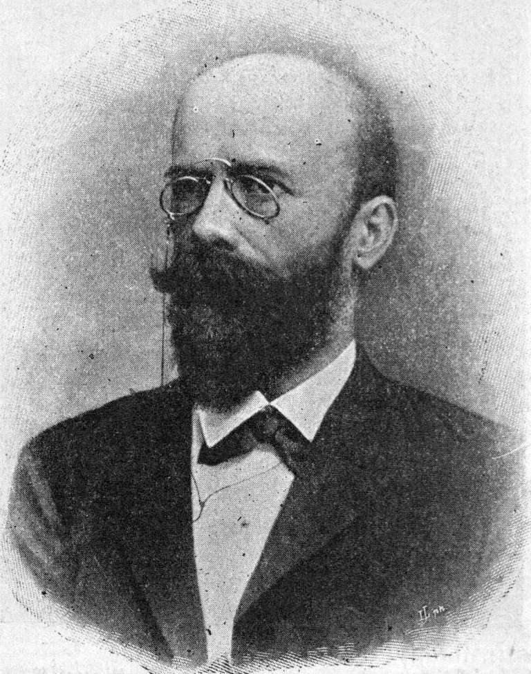 Veit Graber (1844–1892), Austrian entomologist and zoologist